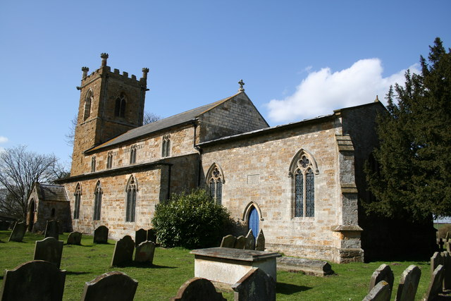 All Saints' church, West Rasen, Lincs.